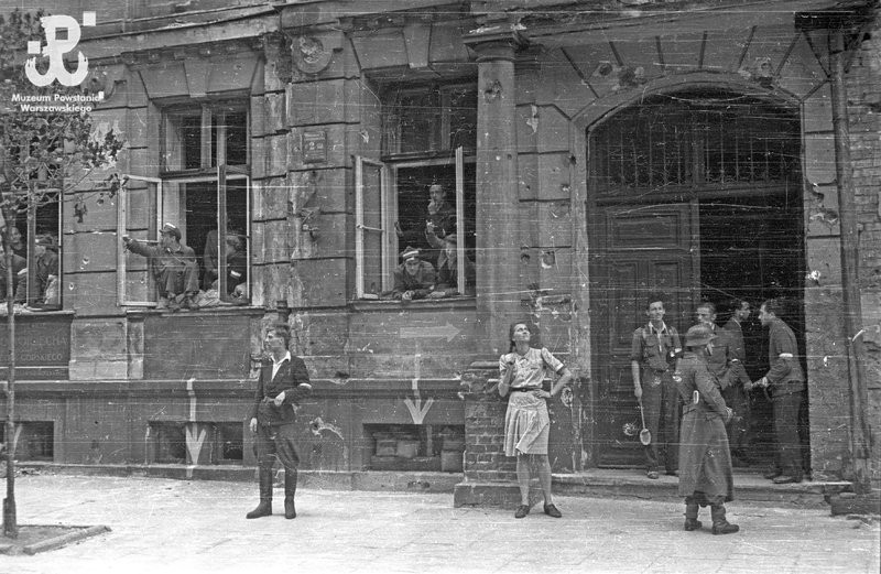 Warsaw Uprising: 3 company of "Kiliński" battalion in the building of high shool of Saint Adalbert at Górskiego 2 Street in Śródmieście district.